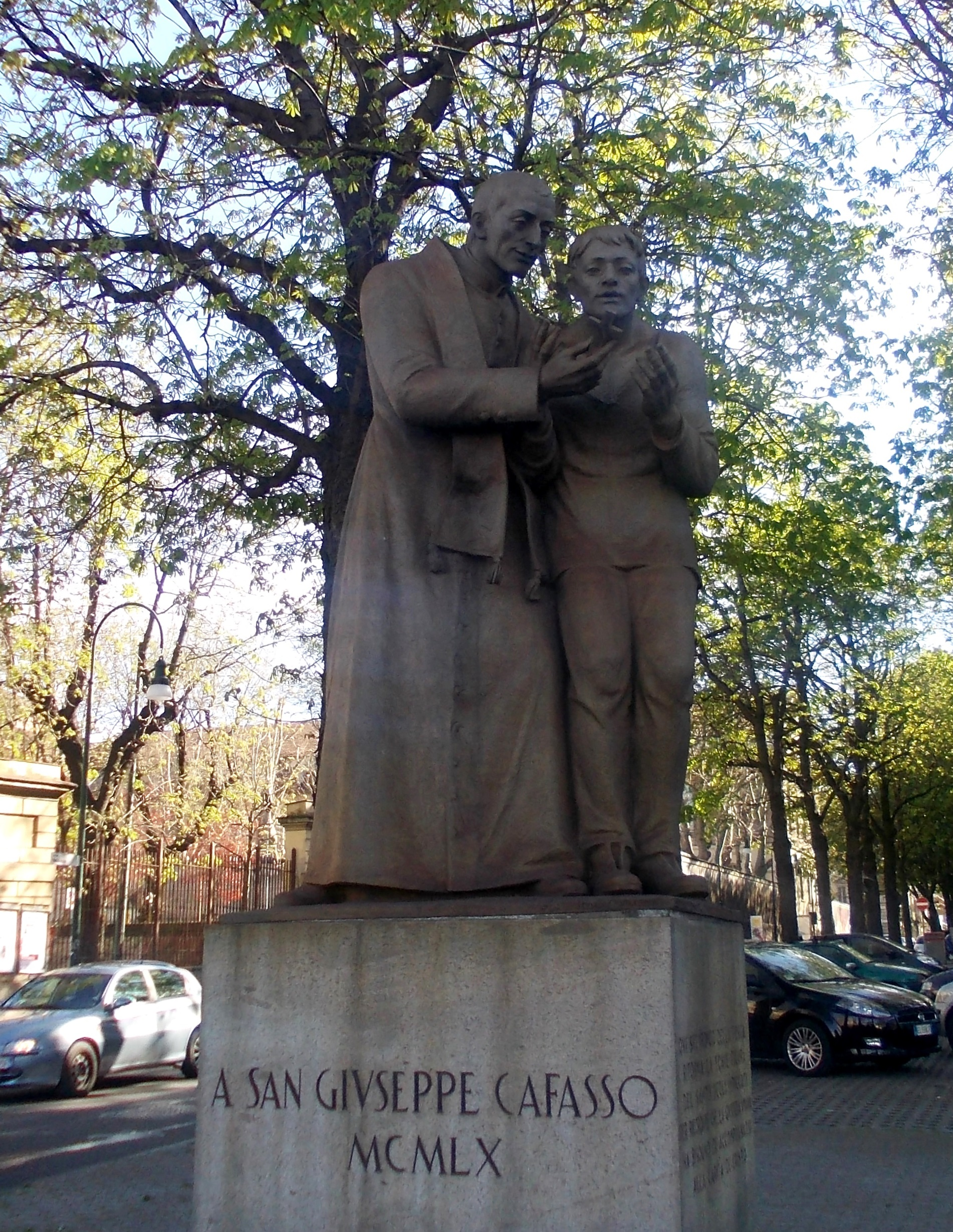 Monument to San Giuseppe Cafasso in Turin, Italy